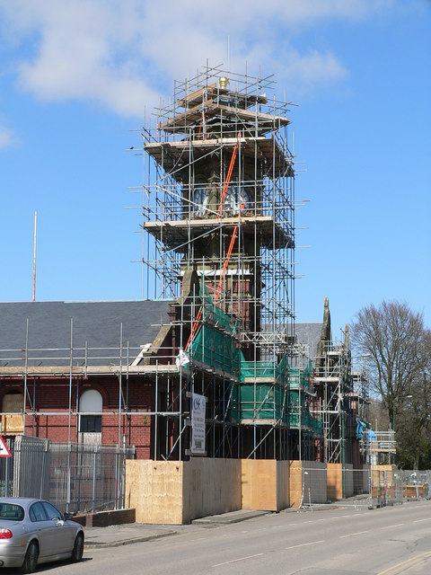 Restoration of the Steelworks General Offices The offices of the Ebbw Vale Iron and Steel Company were erected in 1915-16 but the onset of war resulted in only half the building being completed. The first ironworks was established Ebbw Vale in 1786 and the currently tinplate and galvanising works closed in 2005 (?). The General Offices are undergoing a complete restoration and will be opened as a Visitor Centre for the regeneration of the steelworks site and a genealogy centre.